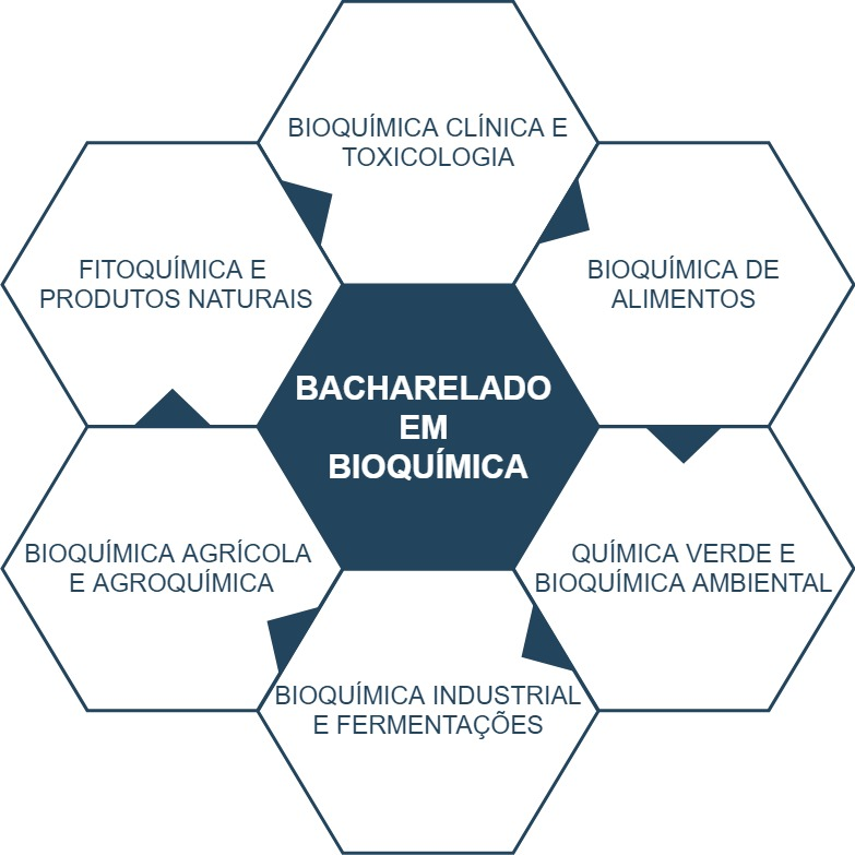 Biochemistry from a chemical perspective